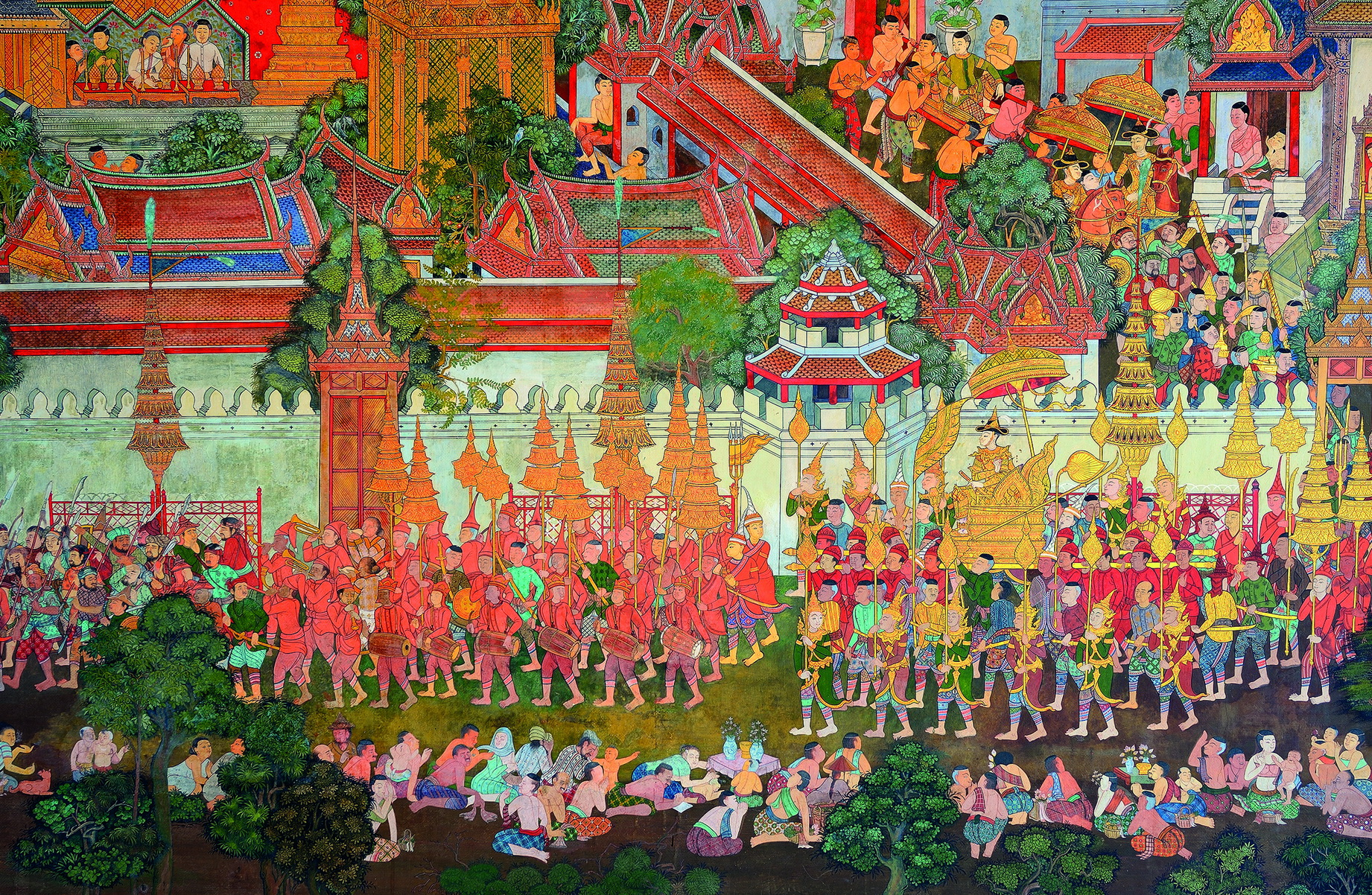 Wat Amphawan Chetiyaram is a significant royal temple as it was built by an ancestor of Queen Amarindra (Nak), the queen consort of King Rama I. Thus, Amphawa subdistrict has been of significance to all kings of Chakri Dynasty. The ubosot was built during the reign of King Rama I, and the major renovation was carried out in 1995. Inside the ubosot displays mural paintings narrating biography of King Rama II, by order of H.R.H. Princess Maha Chakri Sirindhorn, and the princesses herself also painted a portrait of King Rama II. The temple also displays a prang containing relics of King Rama II, and Song Tham Throne Hall which was presented the Architectural Conservation Award in 1995, and houses a Buddha statue, in subduing mara posture, sitting on a lotus-shaped pedestal painted in a Chinese pattern, and a replica the Buddha footprint.